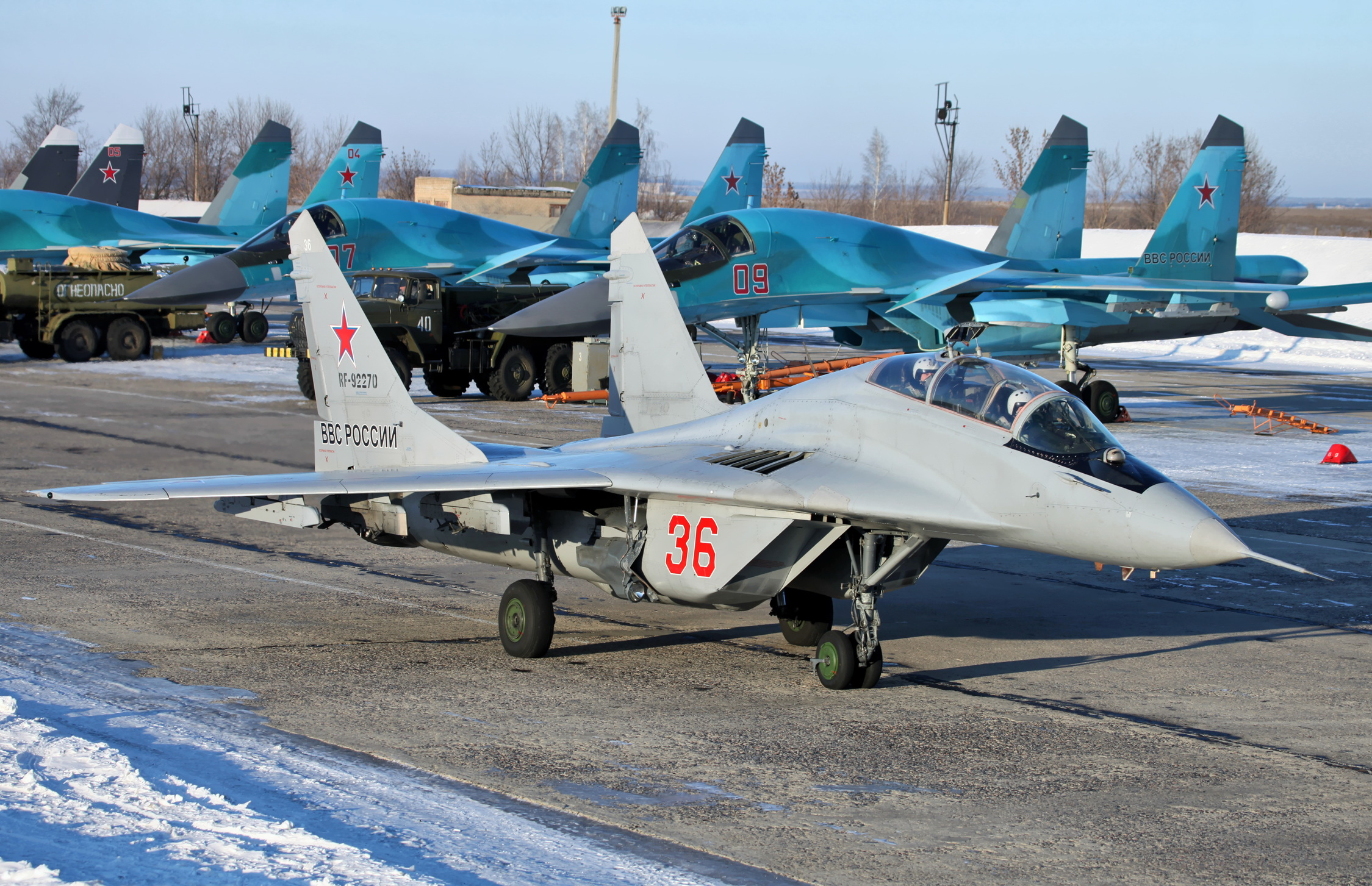 MiG-29UB